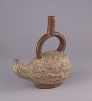 Moche Squash. Larco Museum Collection.